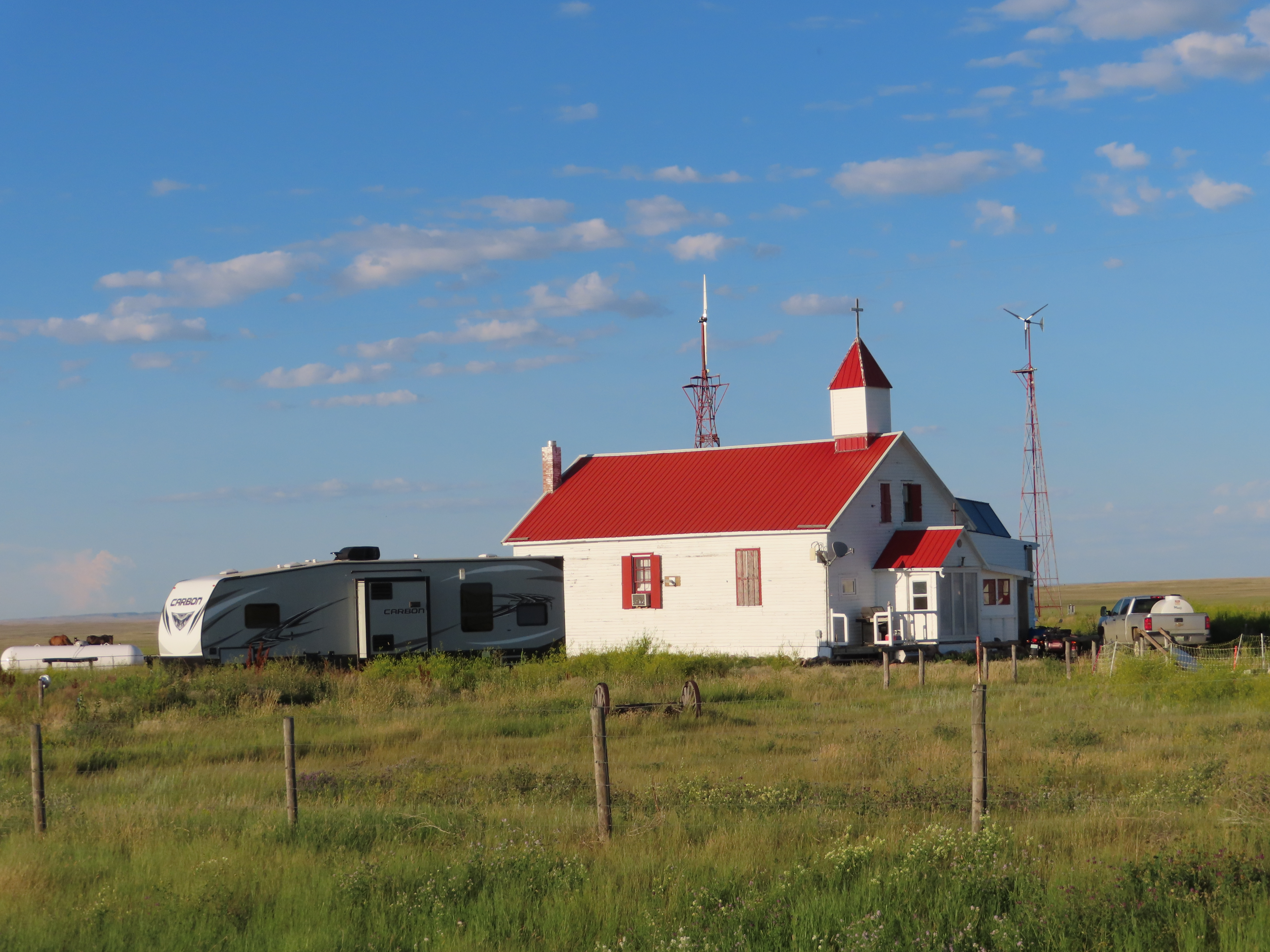 Church in Rosefield, Saskatchewan.